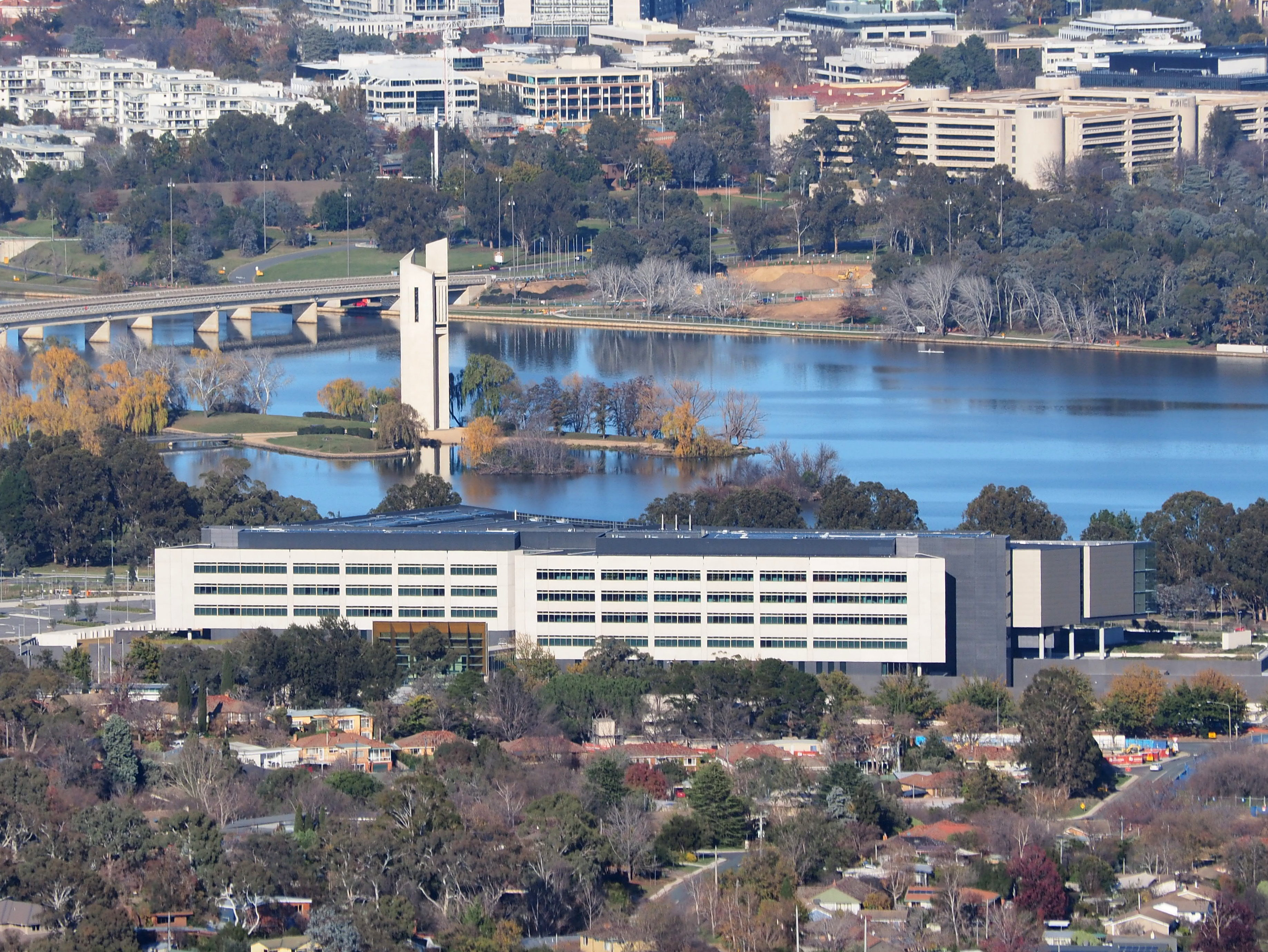 The Ben Chifley Building viewed from Mount Ainslie